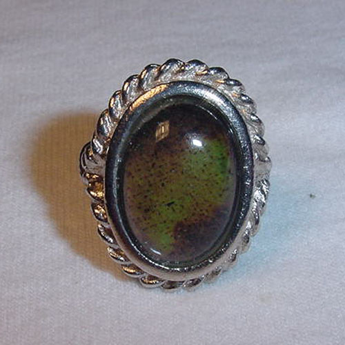 Mood ring